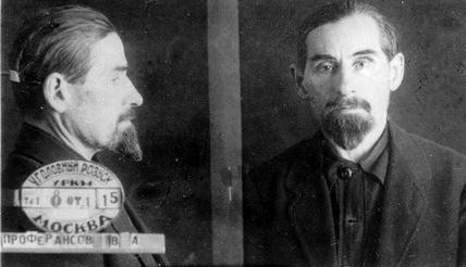 Vladimir Proferansov